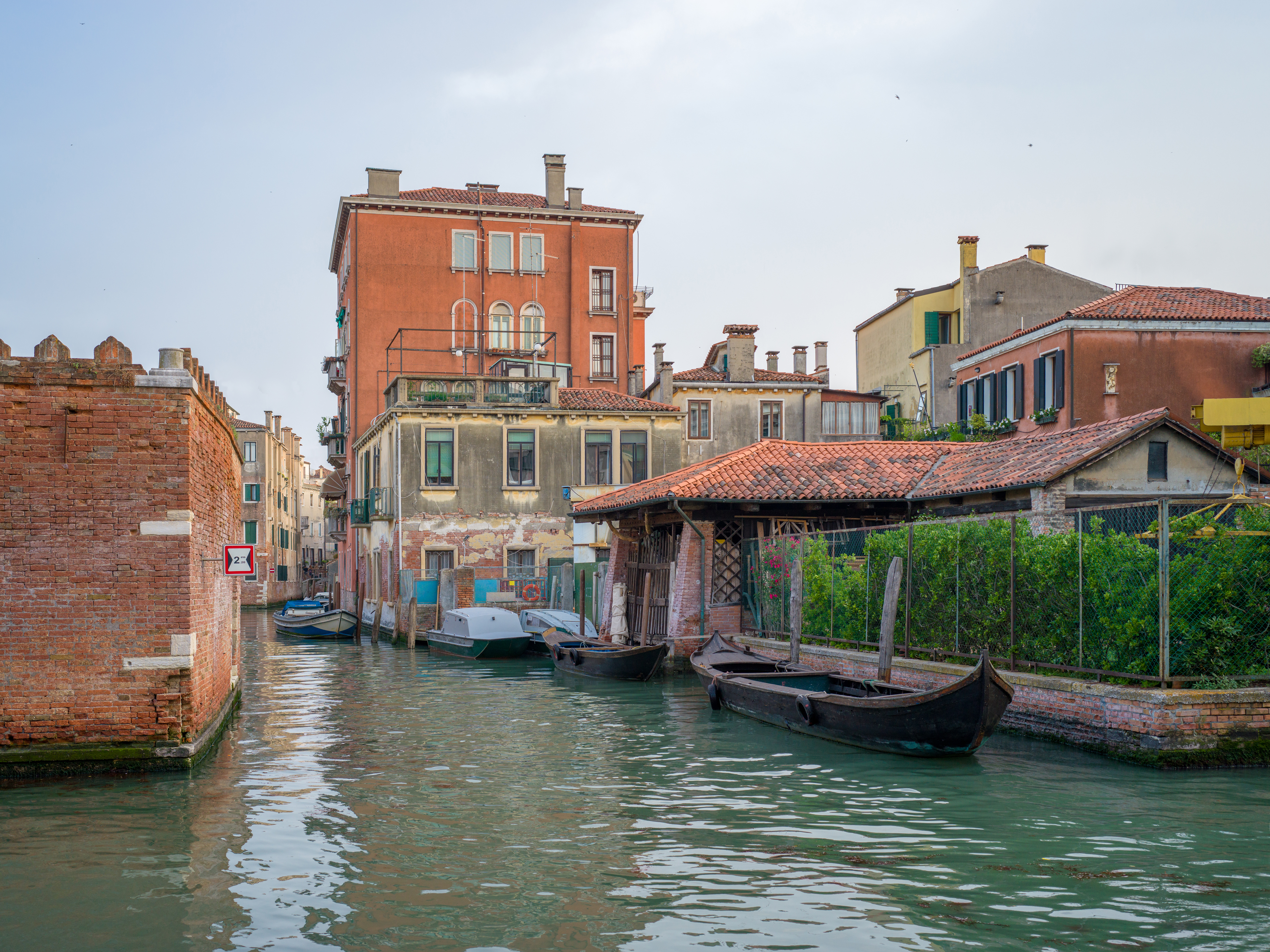 The Rio della Misericordia, Rio San Girolamo and Rio di San Marcuola canal crossing in Venice. On the right the Squero Casal dei Servi